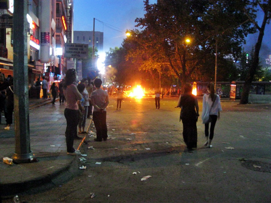 2013 Taksim Gezi Park protests, Ankara, Kızılay